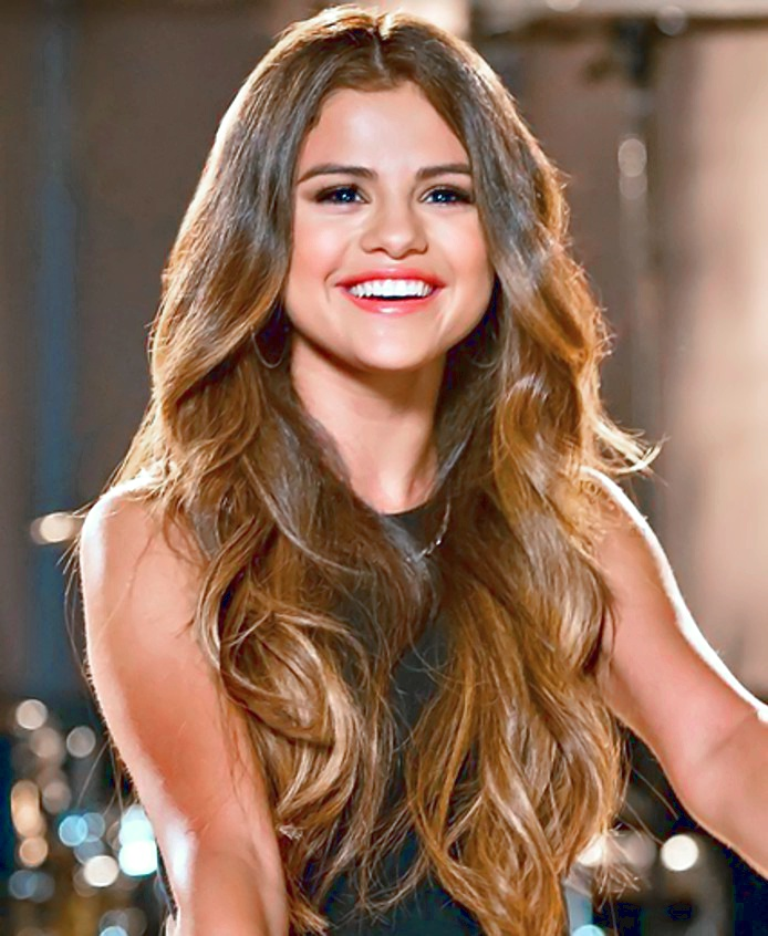 Selena Marie Gomez (July 22, 1992- ), an American actress and singer.